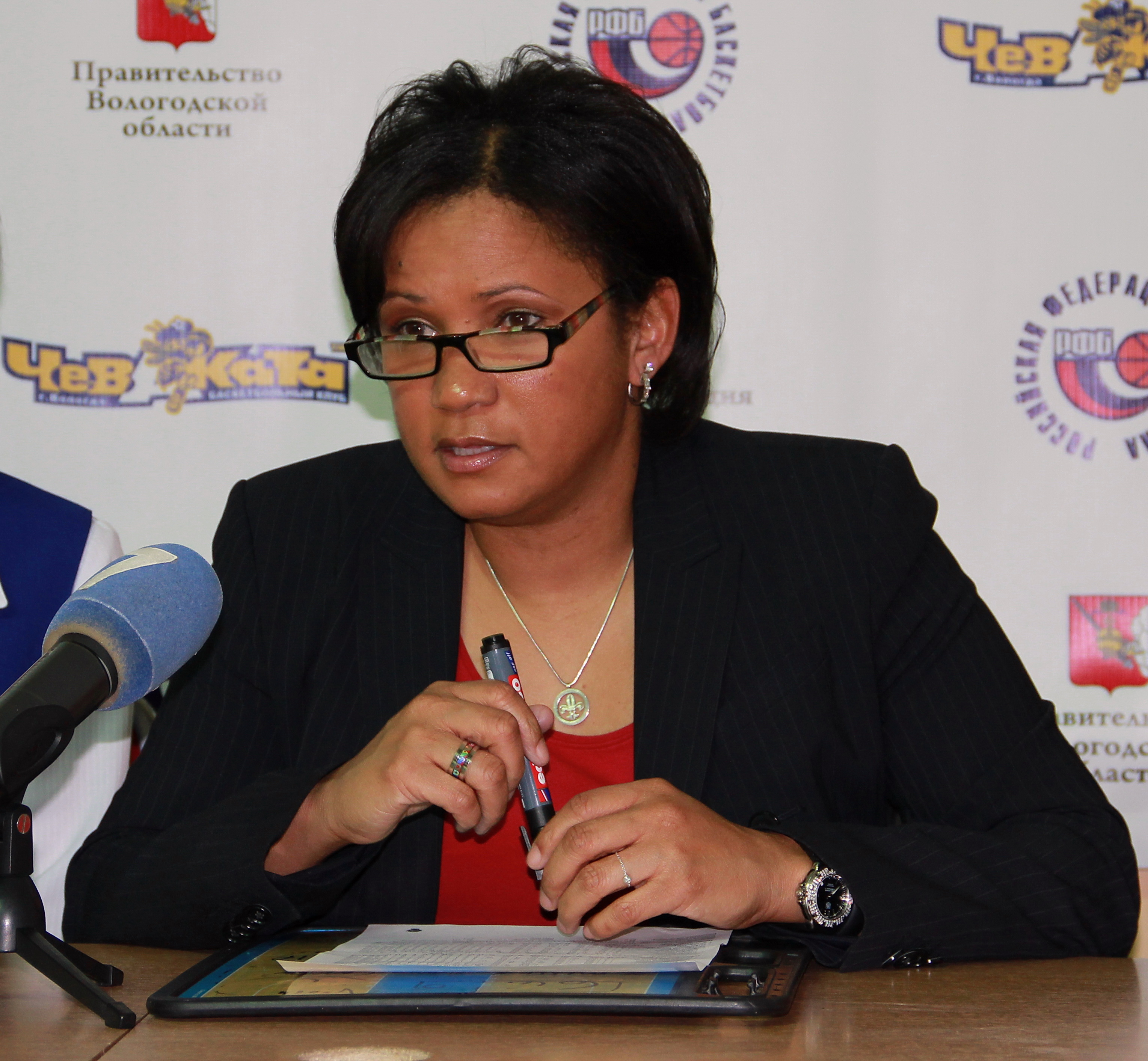 Russia, Vologda, Pokey Chatman after game «Vologda-Chevakata» vs «WBC Spartak Moscow Region»